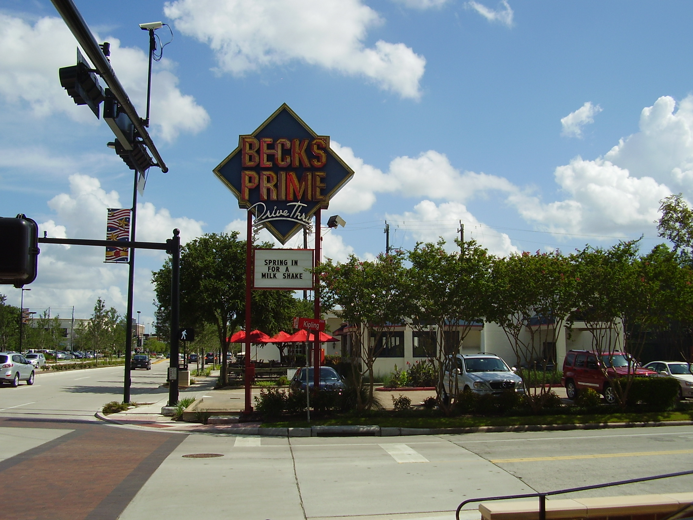 Becks Prime Kirby restaurant - 2902 Kirby Drive, Houston, TX 77098